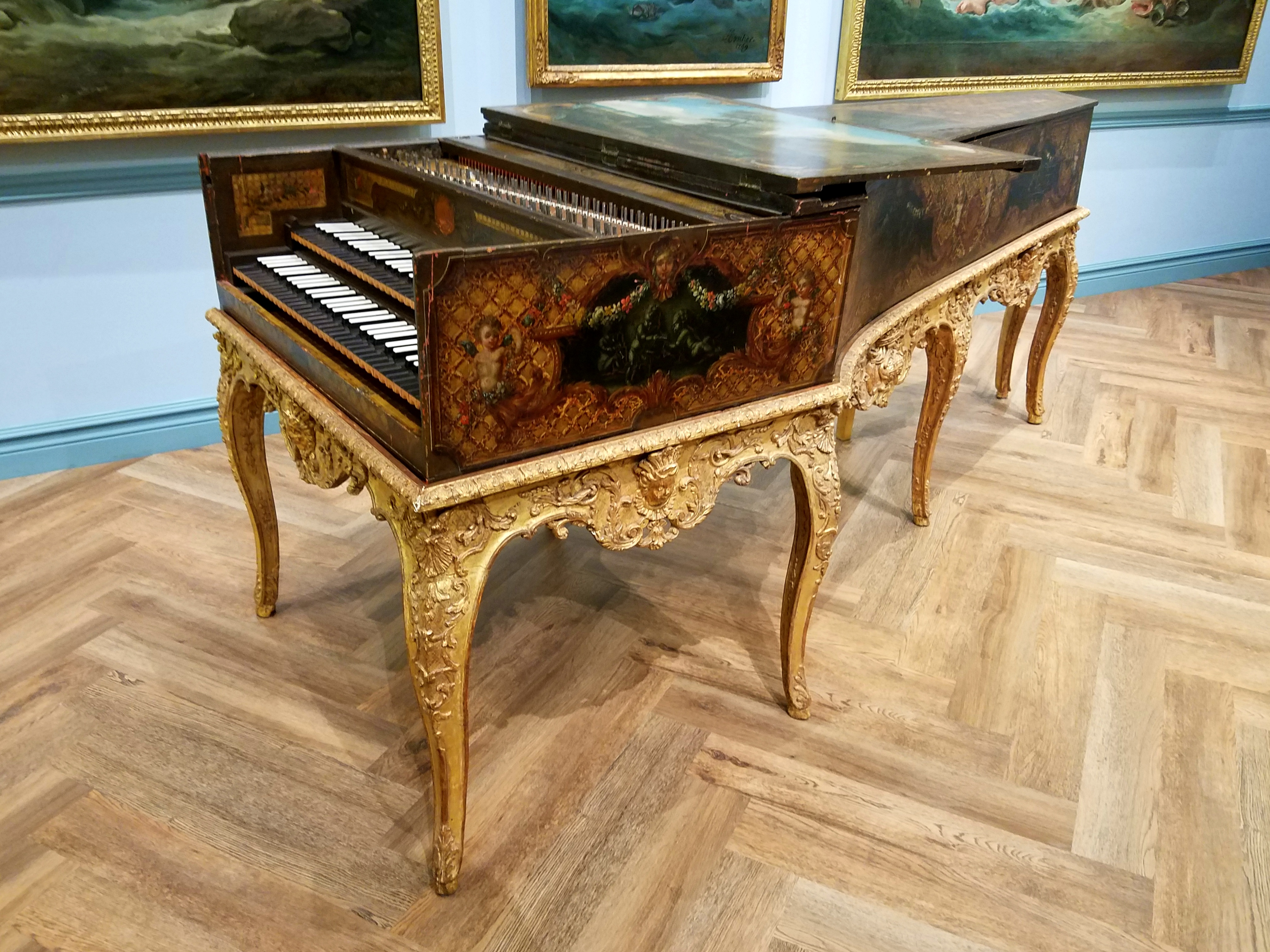 Exhibit in the Museum of Fine Arts, Boston, Massachusetts, USA.